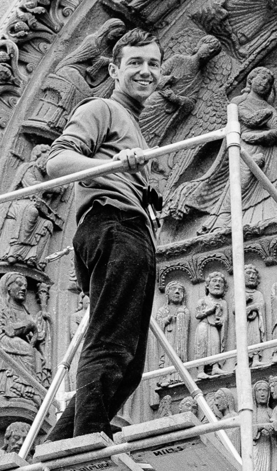 James Austin photographing from his scaffolding outside the west front of Chartres Cathedral